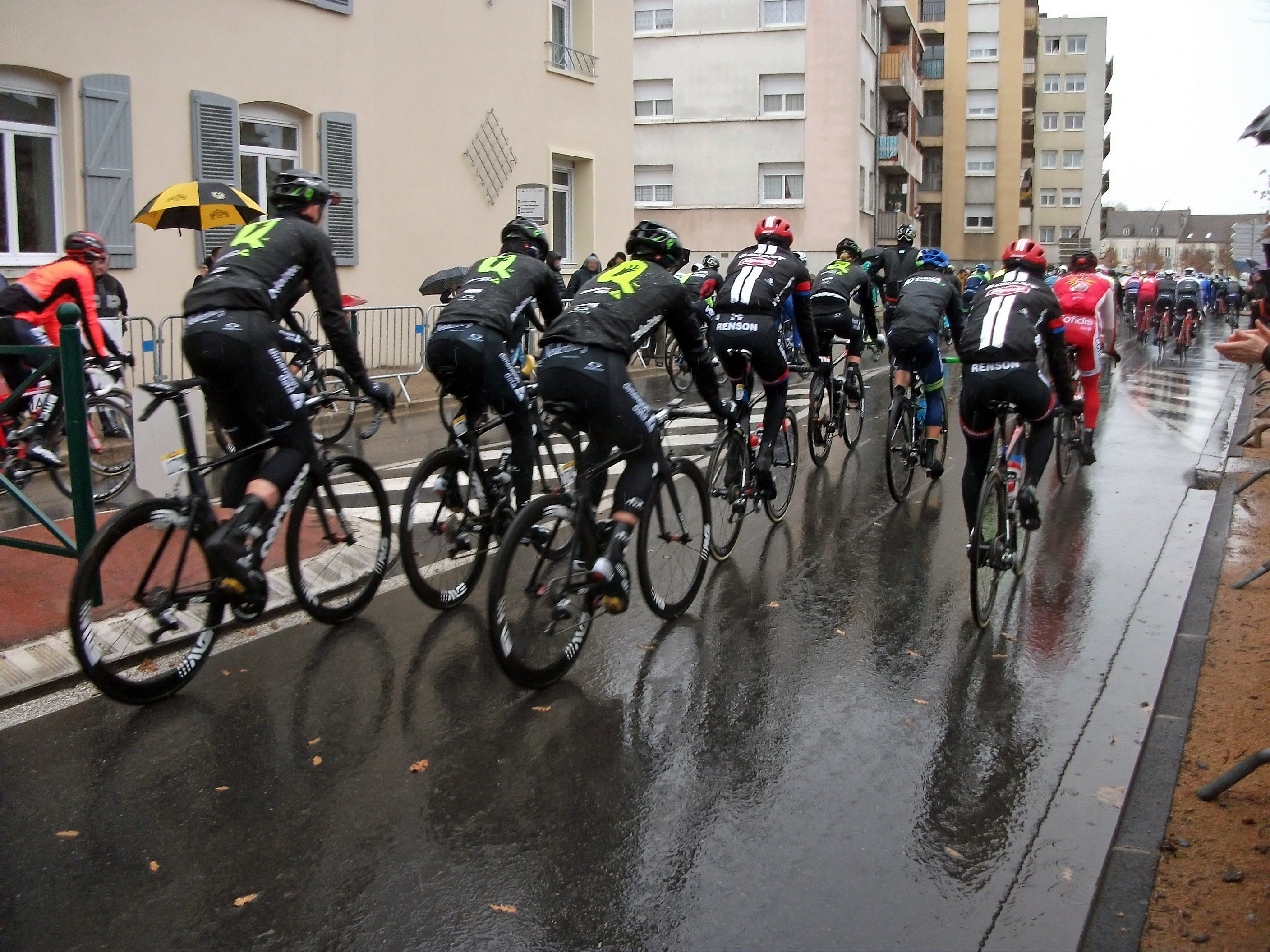 Cyclists of 2016 Paris-Nice (3rd stage) took the start a few seconds ago. Cours Arloing, in Cusset [10296]